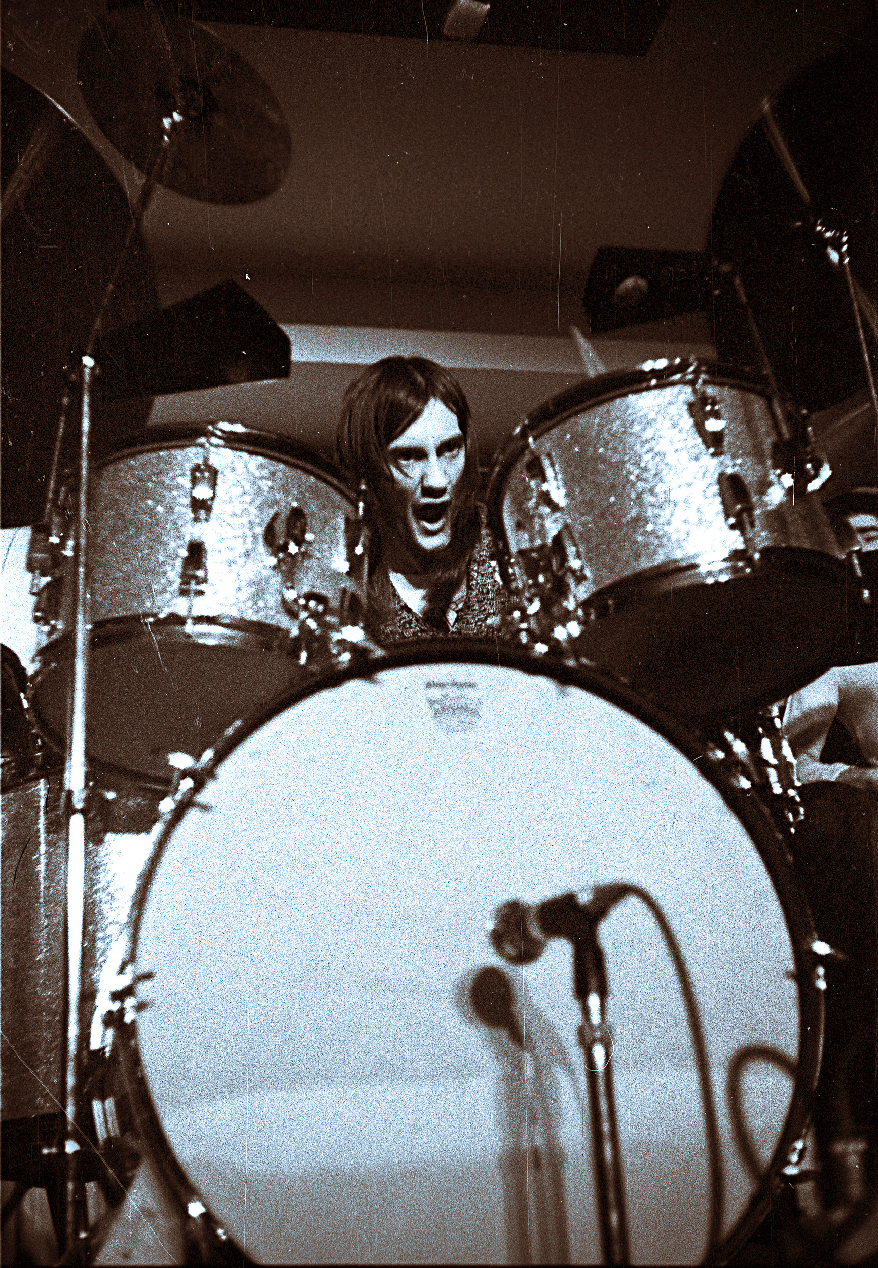 Mick Fleetwood, Fleetwood Mac, March 18, 1970 Niedersachsenhalle, Hannover, Germany The Touring Band: Mick Fleetwood - Percussion, Peter Green - Lead Vocals/Guitar/Harmonica (left band in May), John McVie - Bass Guitar, Jeremy Spencer - Vocals/Guitar, Danny Kirwan - Vocals/Guitar